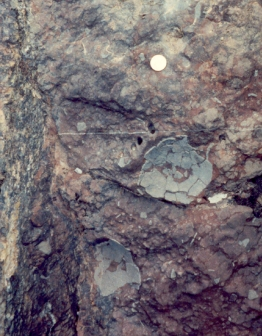 Photo of an indeterminate dinosaur eggs in the Tremp Formation. courtesy: M. Wiemer